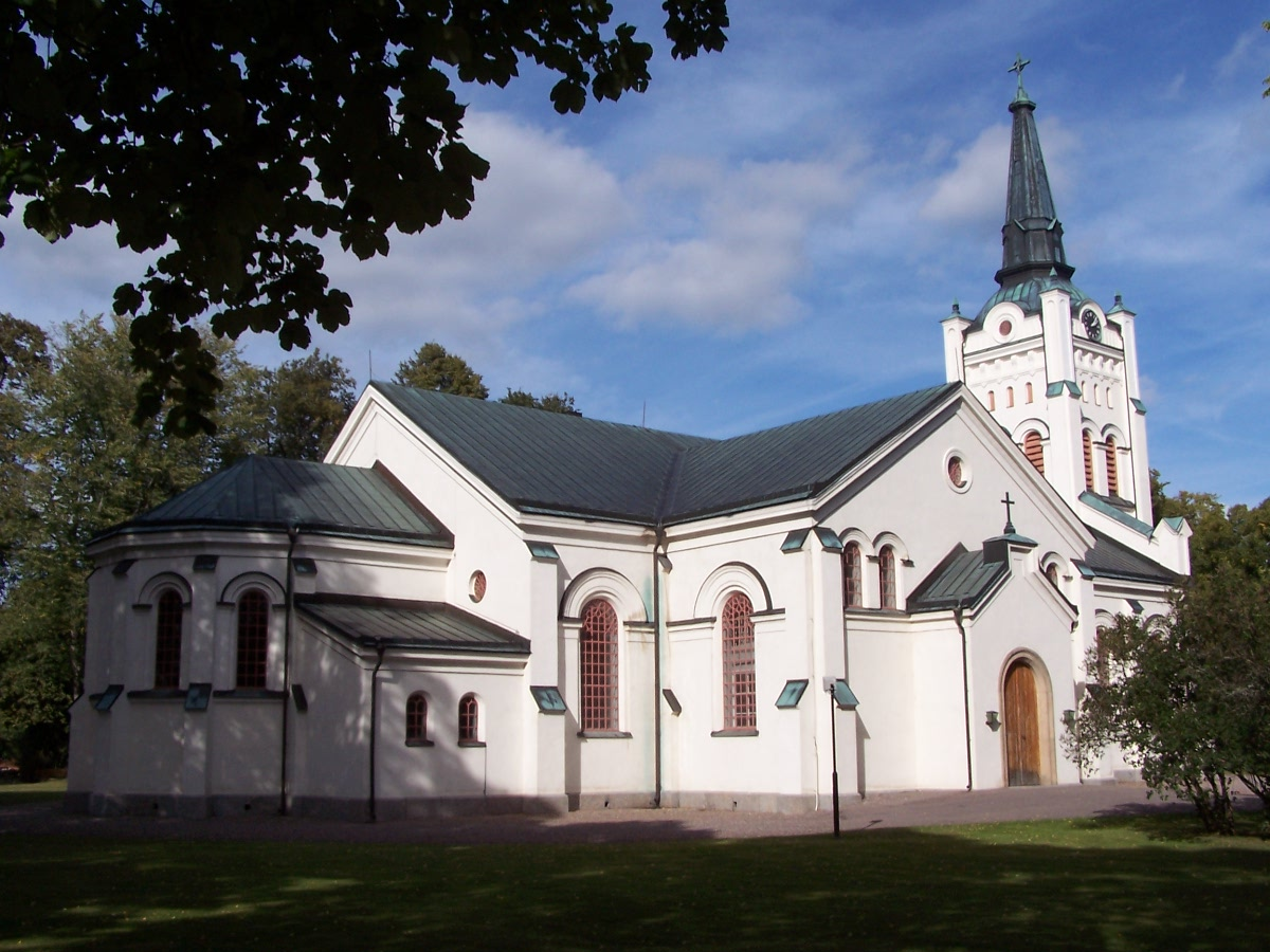 Västra Ed church, Sweden